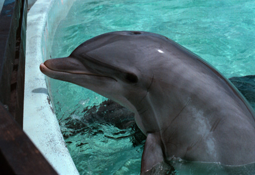 Akeakamai, an Atlantic bottlenose dolphin, stands on her flukes at the Kewalo Basin Marine Mammal Lab in Honolulu, Hawaii. Ake was the subject of numerous cognition and language scientific studies. (Photo circa 1985)